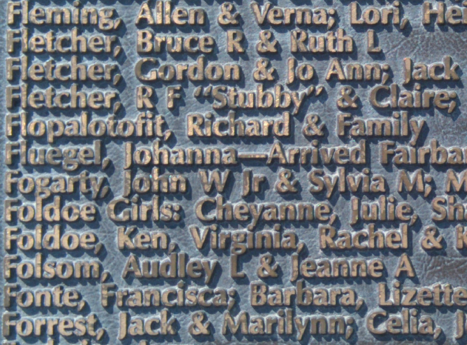 Plaque in Golden Heart Plaza in downtown Fairbanks, Alaska. This plaque was installed in the 1980s with the names of Fairbanks residents. This photo was uploaded here primarily to illustrate a point made in the book Mr. Whitekeys' Alaska Bizarre, which contains a section on Fairbanks and points out that a man named "Dick Flopalotofit" is next to a man named "Stubby" on the plaque.